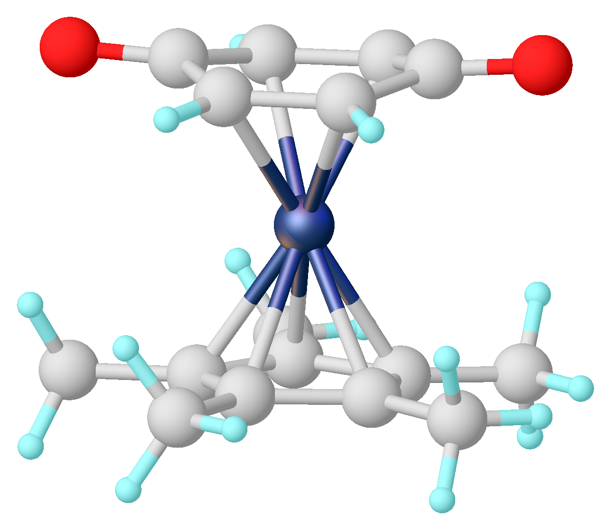 Structure of Cp*Rh(para-quinone) from doi 10.1021/om049292t